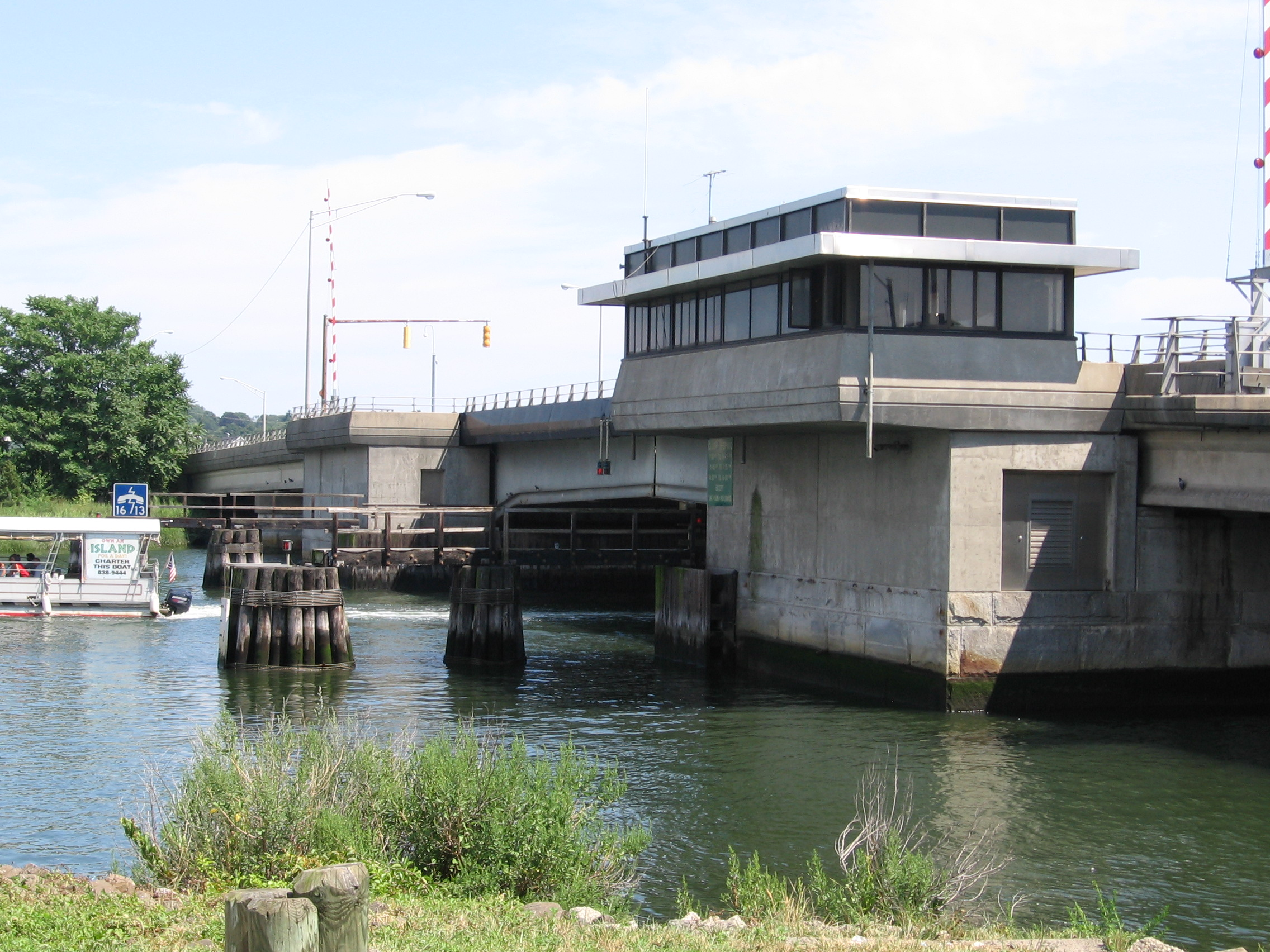 Stroffolino Bridge, view of north side, from South Norwalk. The bridge spans the Norwalk River connecting South Norwalk with East Norwalk in Norwalk, Connecticut.